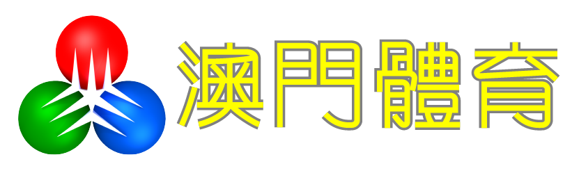 TDMSport.png